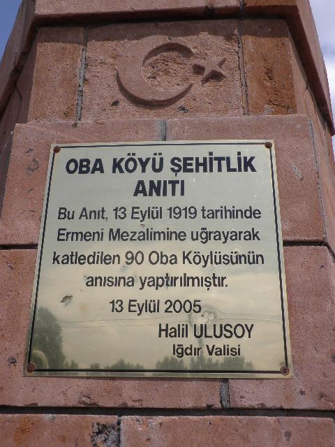 A monument from Oba Village, Iğdır